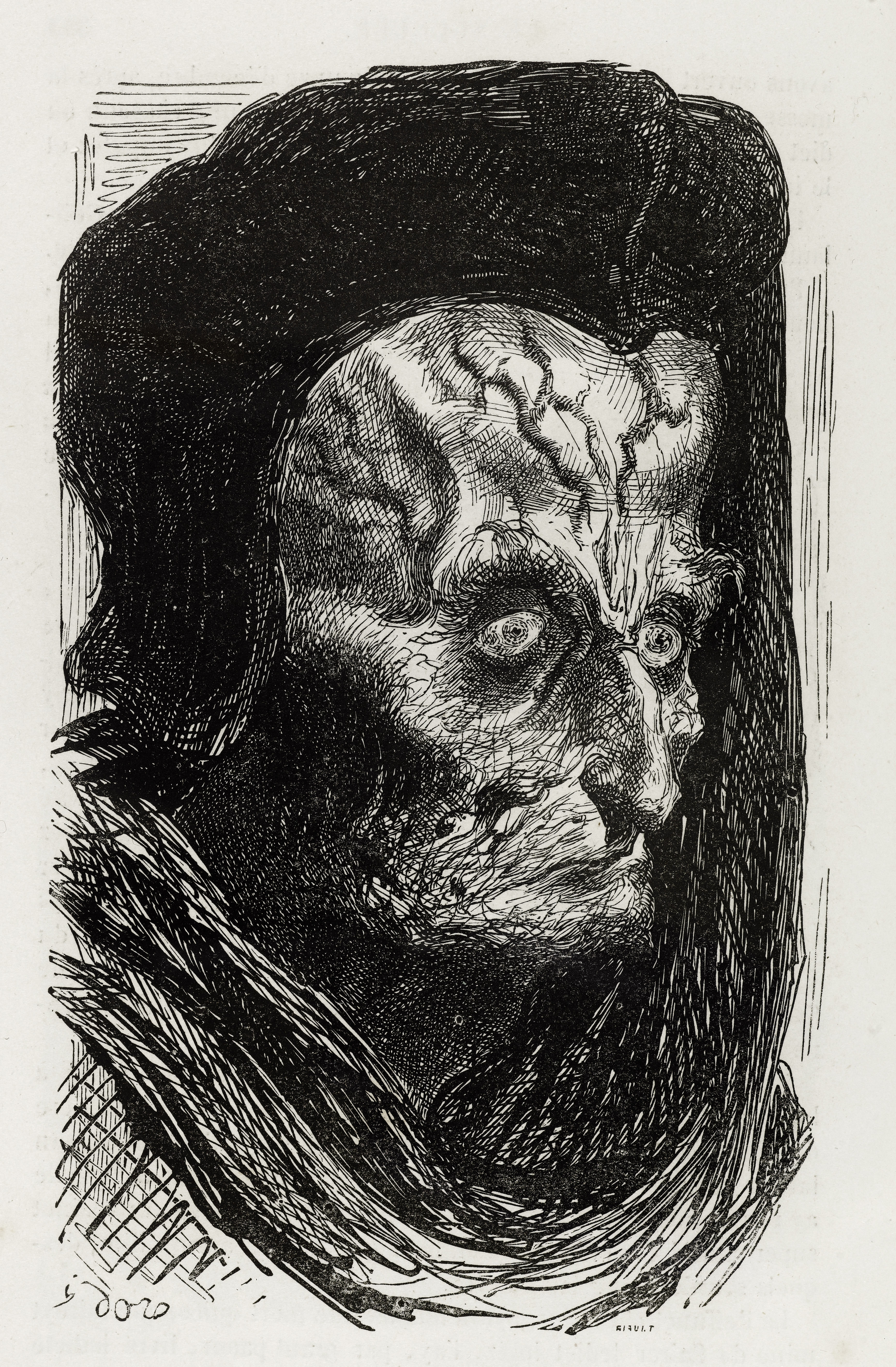 Gustave Doré (1832-1883), dessinateur et Paul Riault (XIXème siècle), graveur. "Guillaume Tournebousche, Rubricquateur du Chapitre, homme docte." Illustration pour Honoré de Balzac, "Les Contes drolatiques", Paris : Société générale de librairie, 1855". Gravure sur bois. Paris, Maison de Balzac.